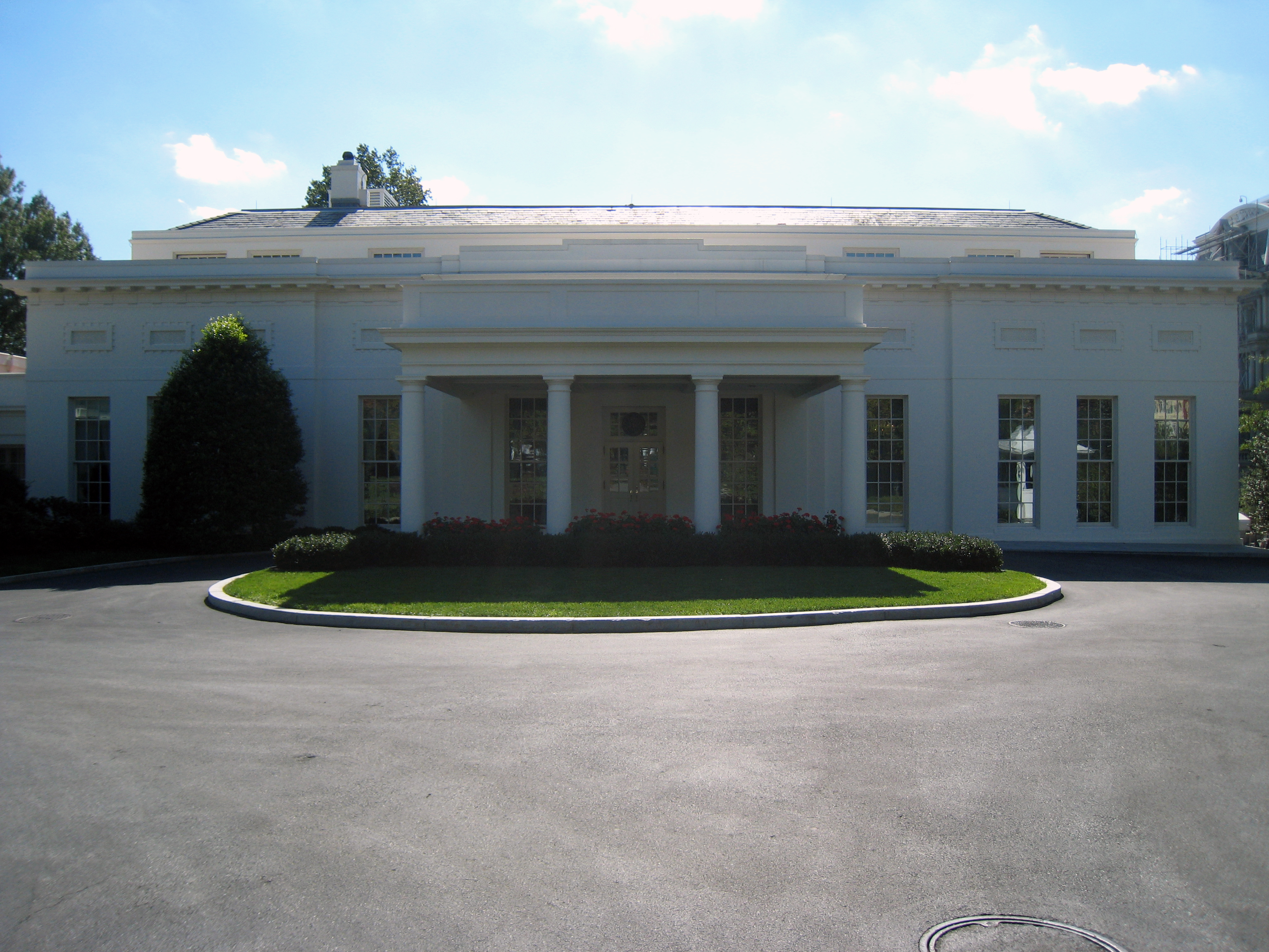 The West Wing of the White House, Washington, D.C., USA.